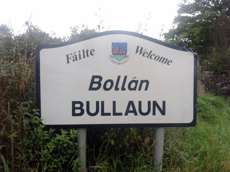 Road signage entering the village of Bullaun, County Galway from the South on road designated "R350"